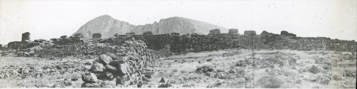 Ahu Tongariki panorama, 1914–15, Easter Island. Lantern Slide (black and white), photograph of a photograph(?), originally spliced in three sections; view of the stone wall of Ahu Tongariki; Hotu Iti, Easter Island.